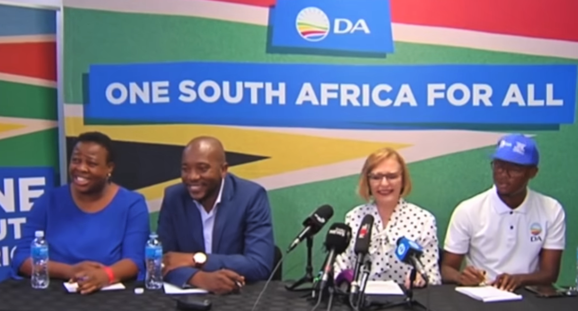 Helen Zille and other DA leaders at a press conference announcing that Zille is the party's new Federal Council Chairperson. From L-R: Refiloe Nt'sekhe, Mmusi Maimane, Helen Zille, Solly Malatsi